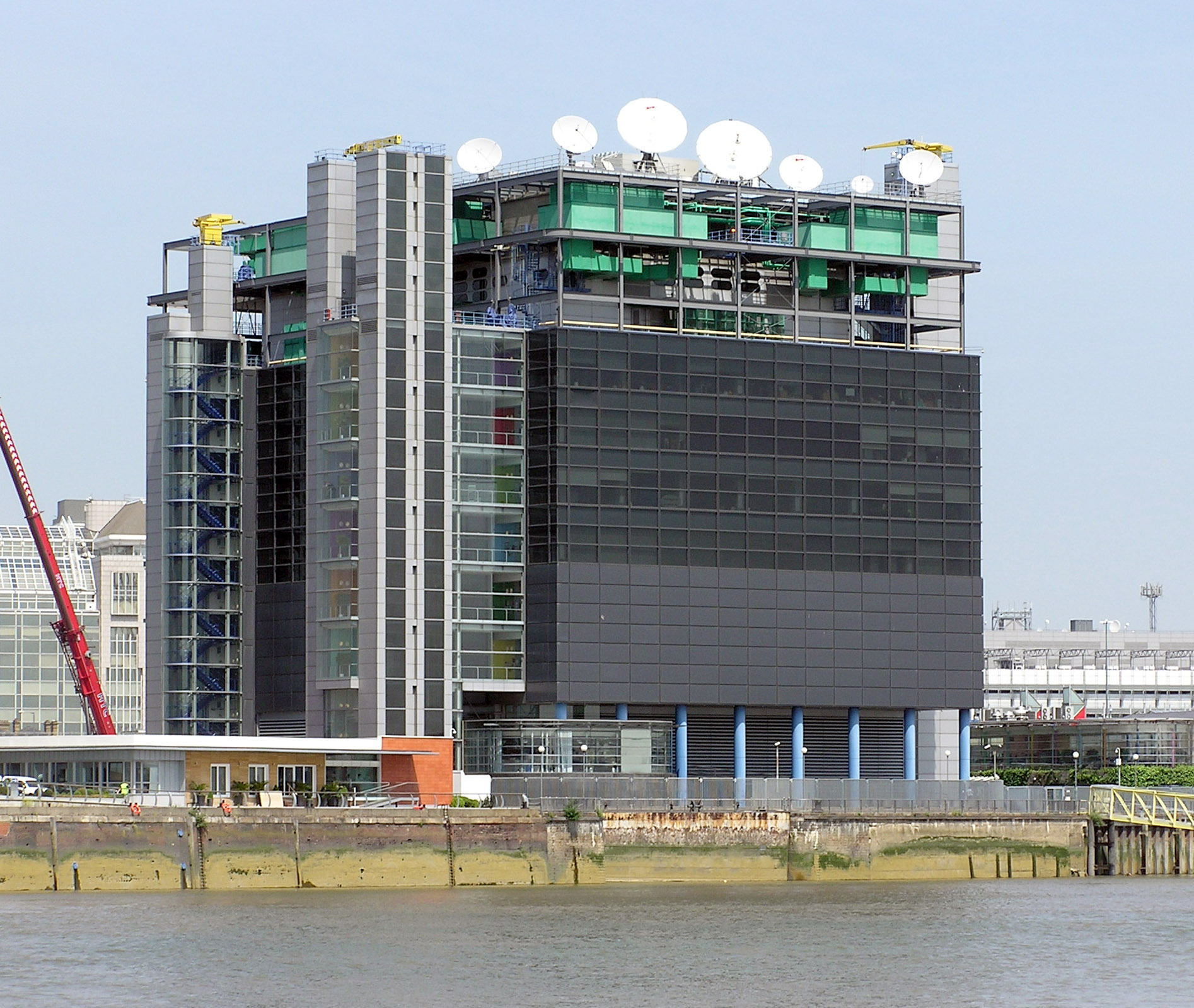 Reuters Data Centre (also called Reuters Technical Services Centre) at Blackwall Yard in the London (England) Borough of Tower Hamlets. The building stands beside the River Thames. Designed by the Richard Rogers Partnership, the building was completed in 1992. Sir Richard Rogers also designed the Pompidou Centre in Paris and the Lloyds Building in central London.